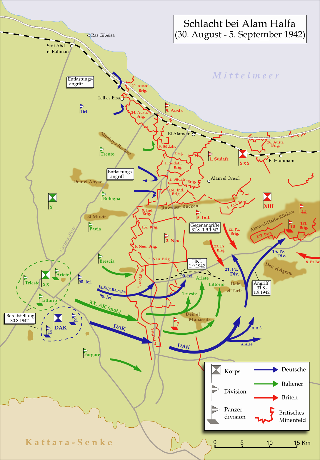 Map in German language showing the operations during the Battle of Alam el Halfa (1942). It is based (with several modifications) on a map in Ian Stanley Ord Playfair: The Mediterranian and the Middle East, Vol.III, Her Majesty's Stationary Office, London 1960.